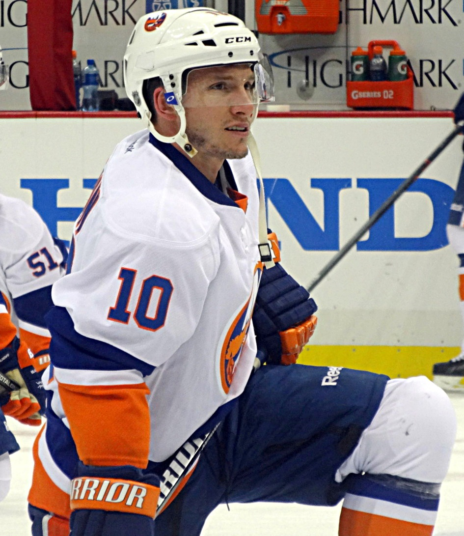 New York Islanders forward Keith Aucoin during round one, game five of the 2013 Stanley Cup playoffs against the Pittsburgh Penguins, May 9, 2013 at Consol Energy Center.